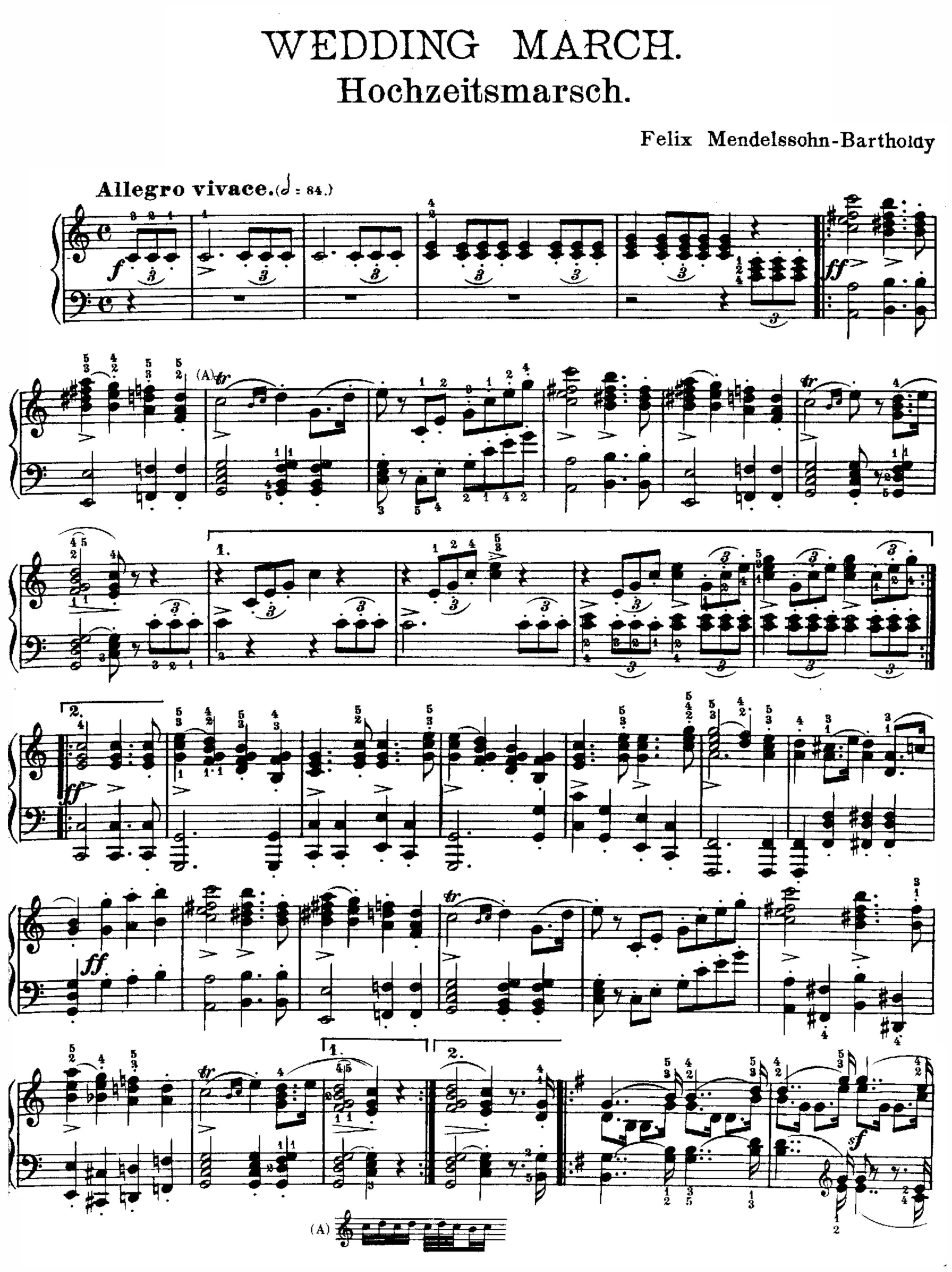 Mendelsohn Wedding March page 1 Piano transcriptopn by the composer